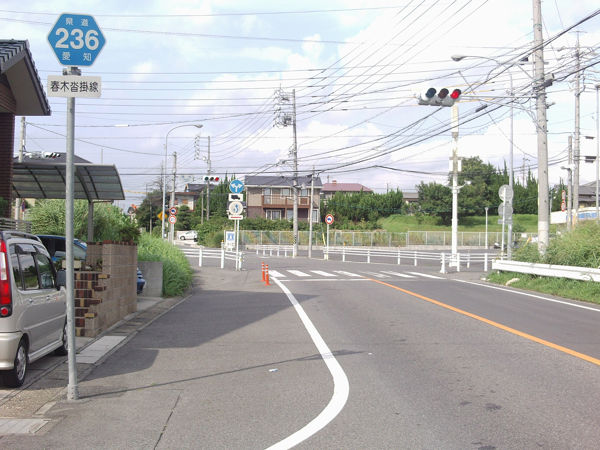 Aichi prefectural road No.236 in Fujitsuka 3-chome, Midori-ku, Nagoya, Aichi.